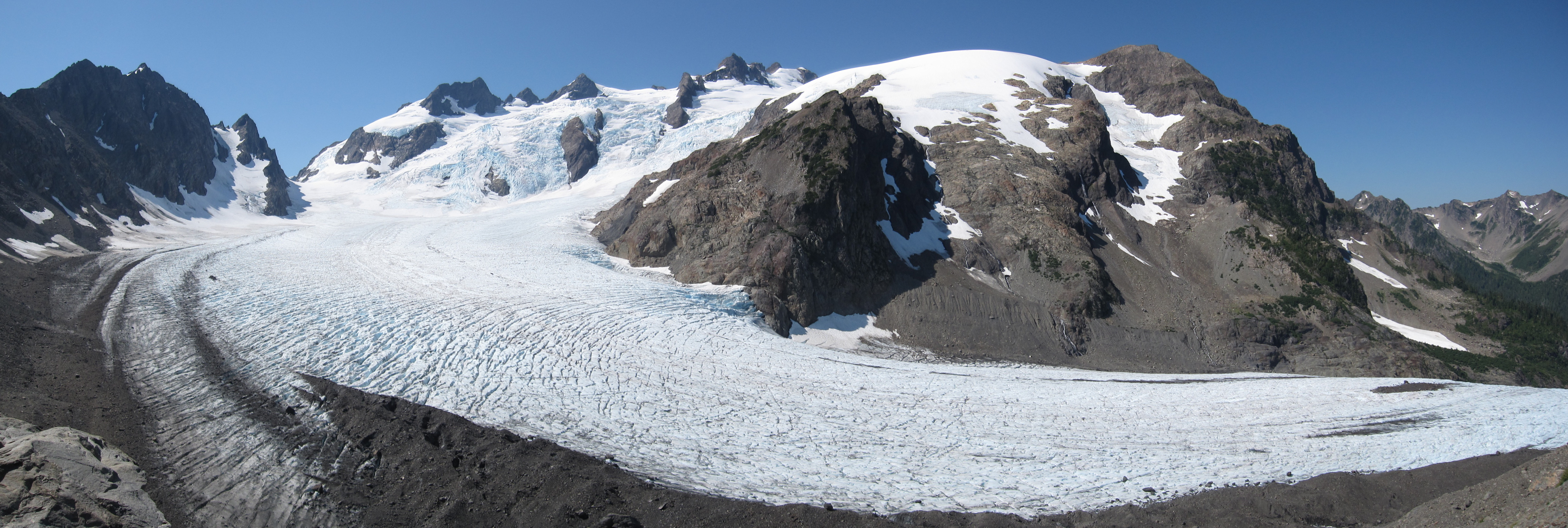 A panorama of the Blue Glacier on the North side of Mount Olympus in the Olympic Mountains of Washington taken from the Lateral Moraine.